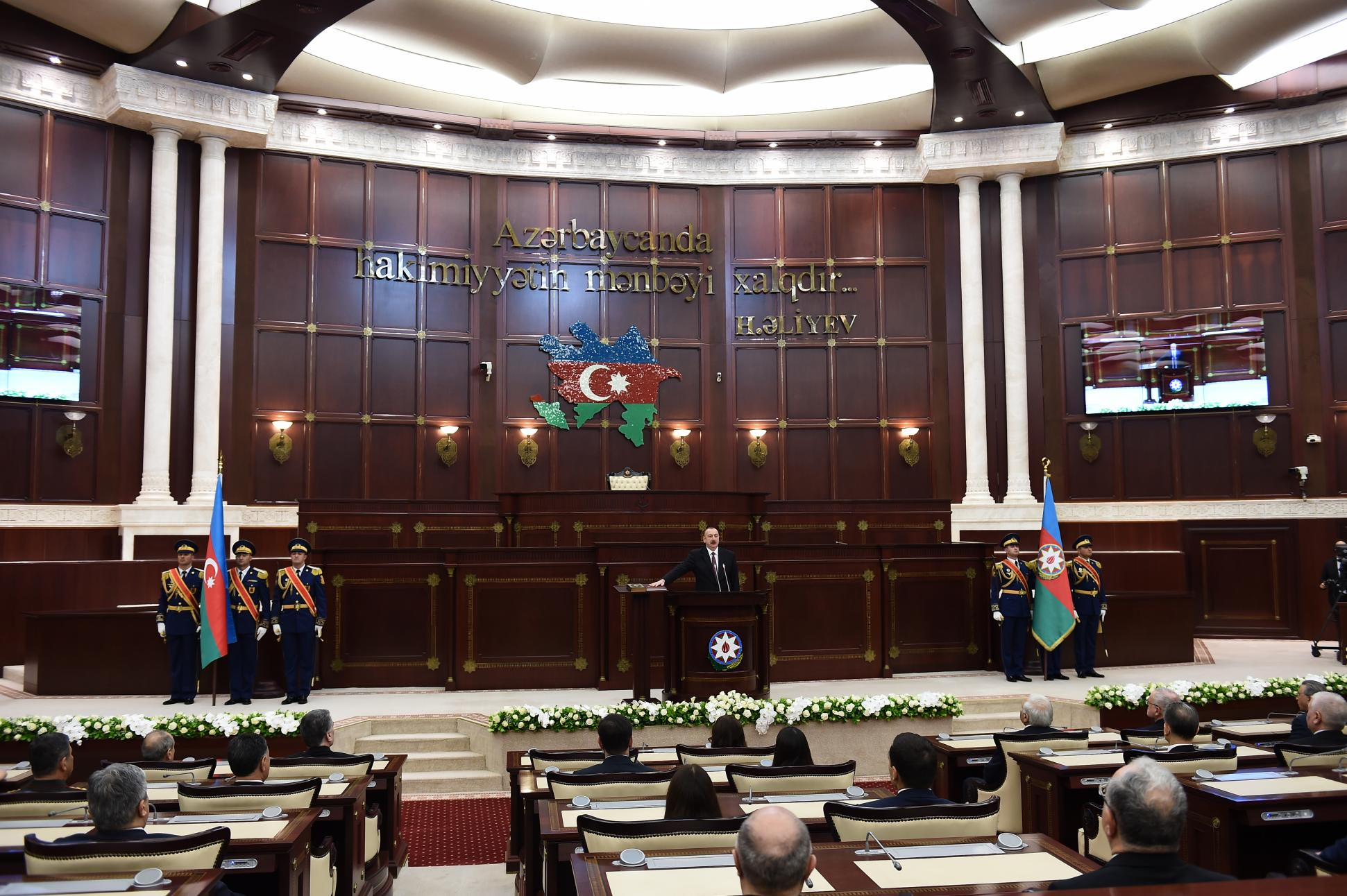 Inauguration ceremony of President Ilham Aliyev held 2018